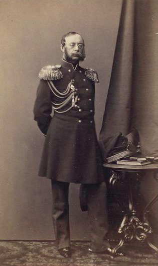 Earl Baranov, Nikolay Trofimovich